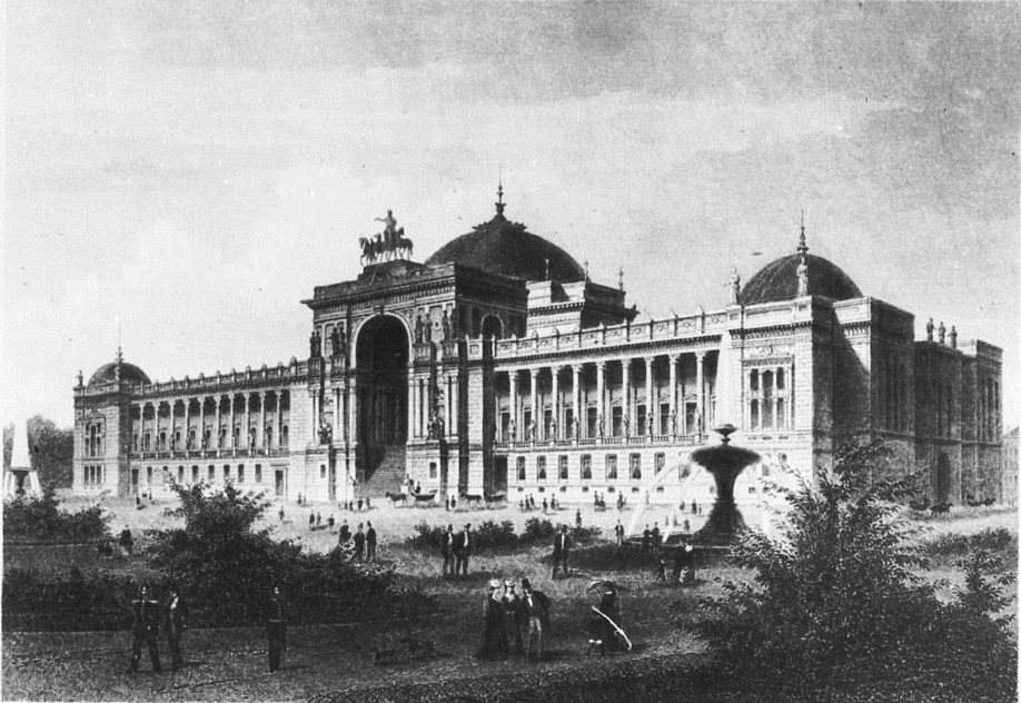 Design for the german Parliament (the Reichstag).